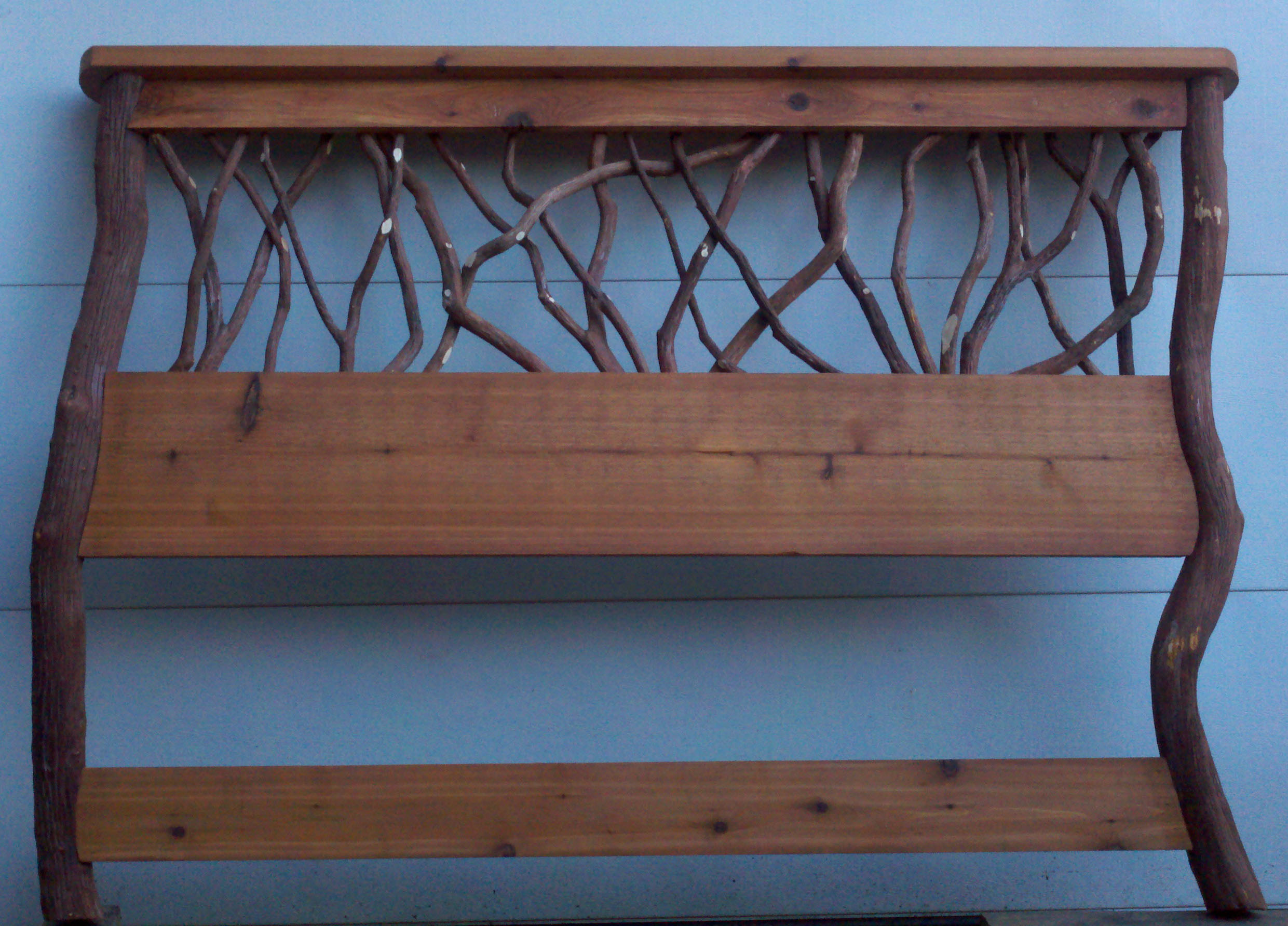 Rustic headboard for a queen size bead with cedar and mountain laurel branches and posts.